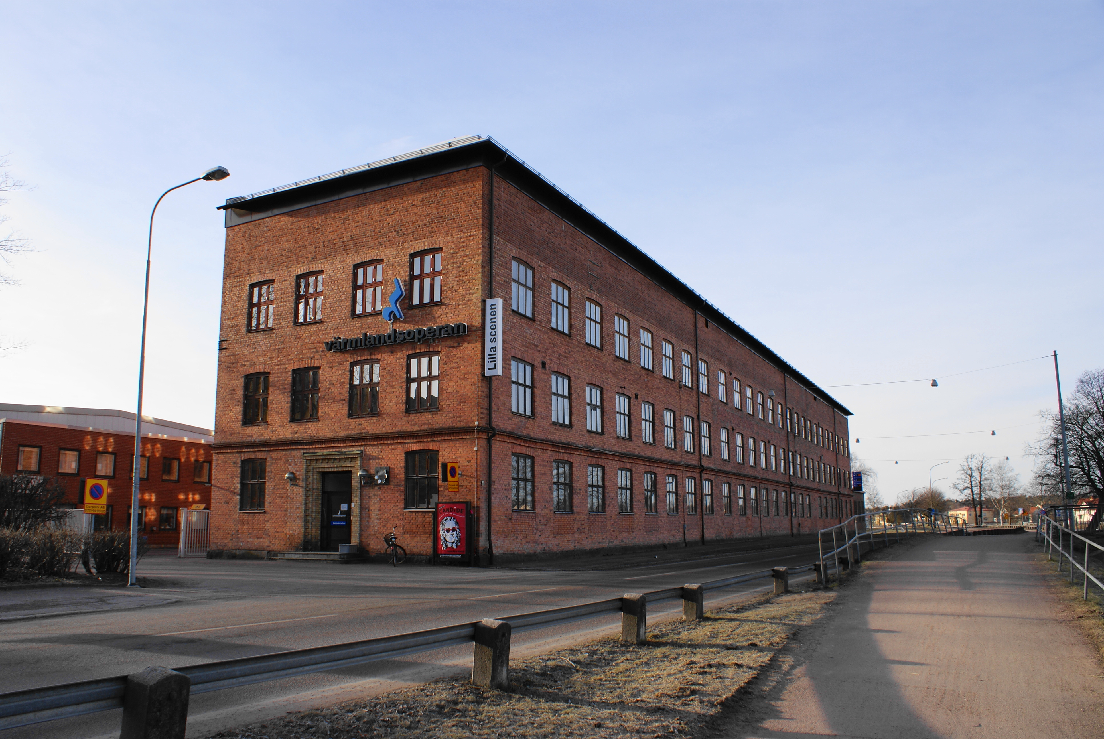 Värmlandsoperans small stage, Spinneriet.